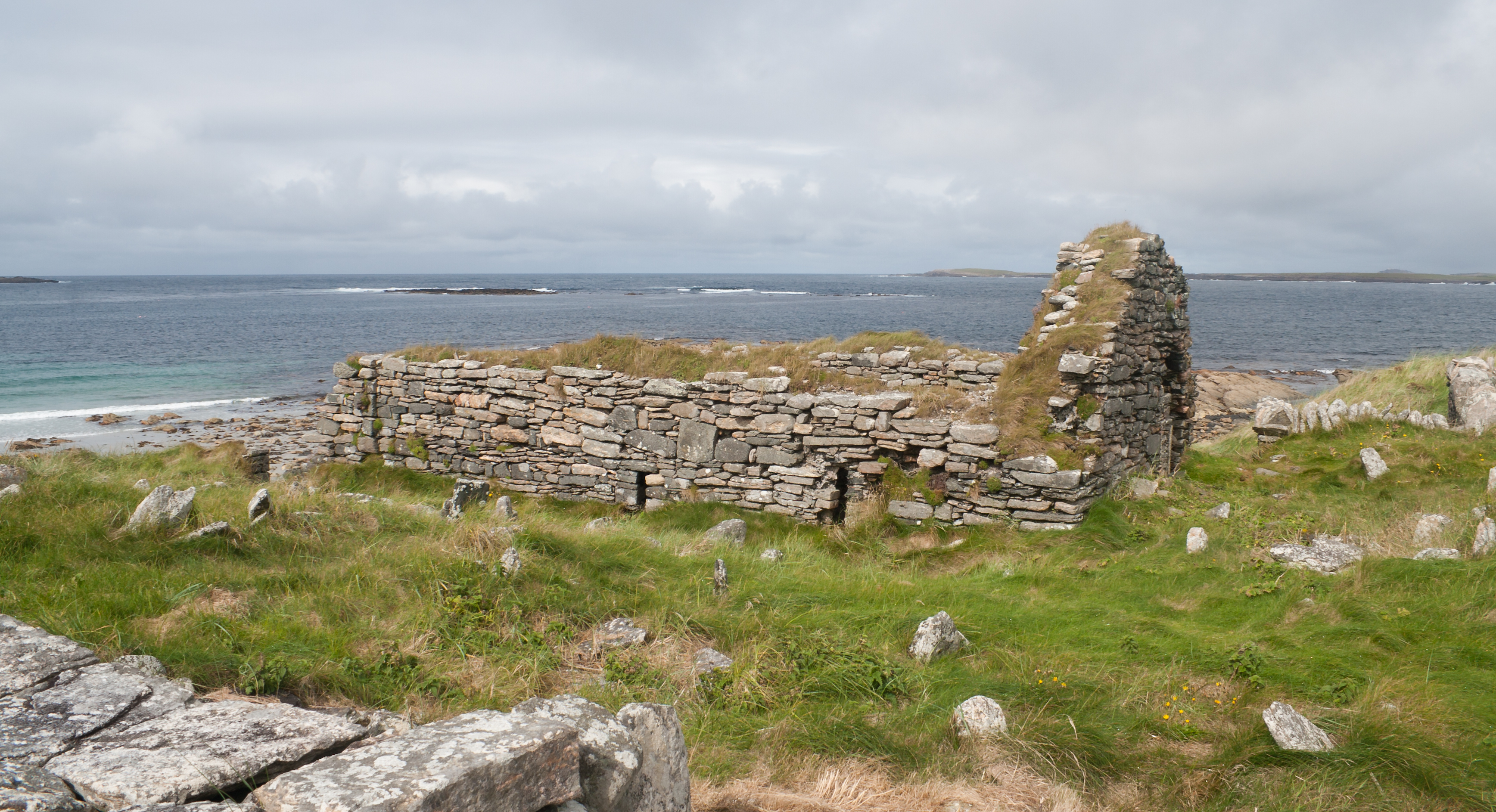 South-east view of the church of Cross Priory with Annagh Head in the background.